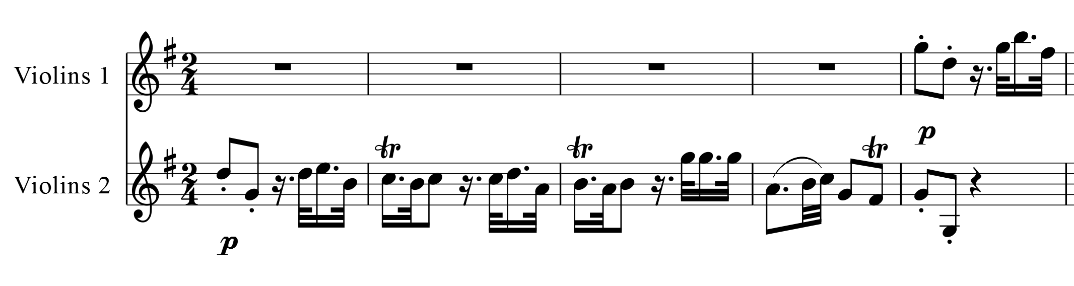 Joseph Haydn, Symphony No. 18, first movement, bar 1-5